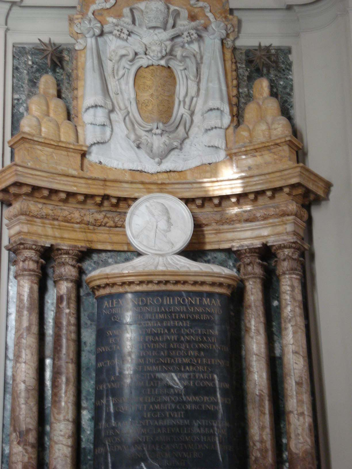 Pope Alexander_III's tomb in San Giovanni in Laterano